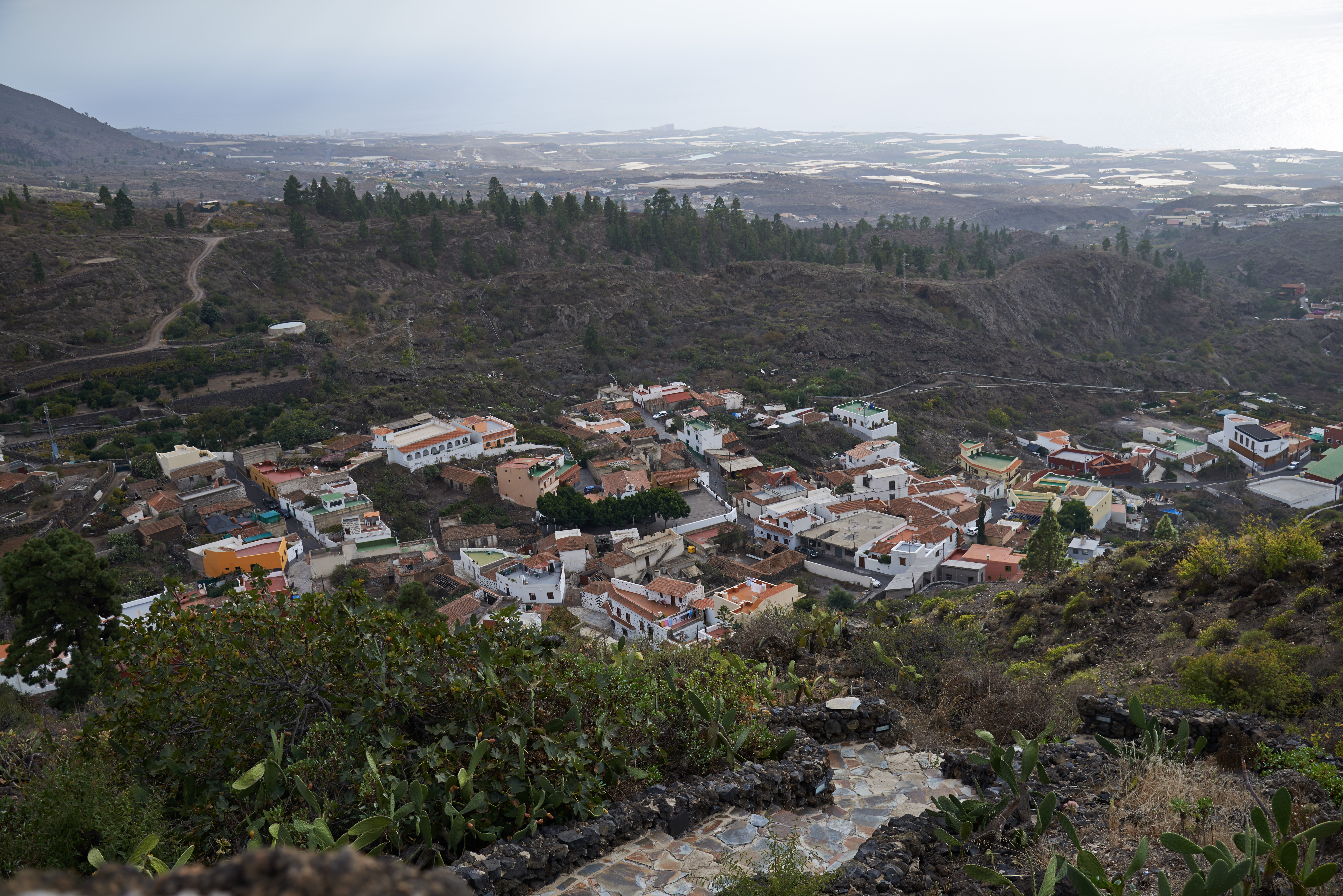 Chirche in Tenerife. Photo taken from Mirador de Chirche